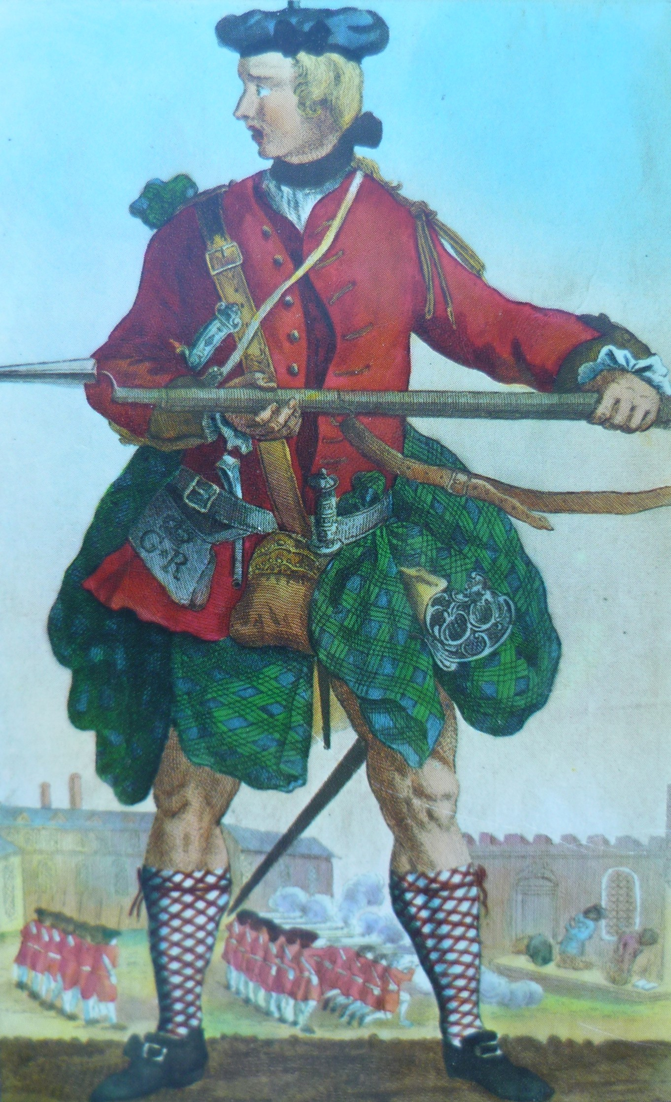 Soldier of the Black Watch. Engraving of Samuel MacPherson of the 43rd Regiment of Foot, National Army Museum, London